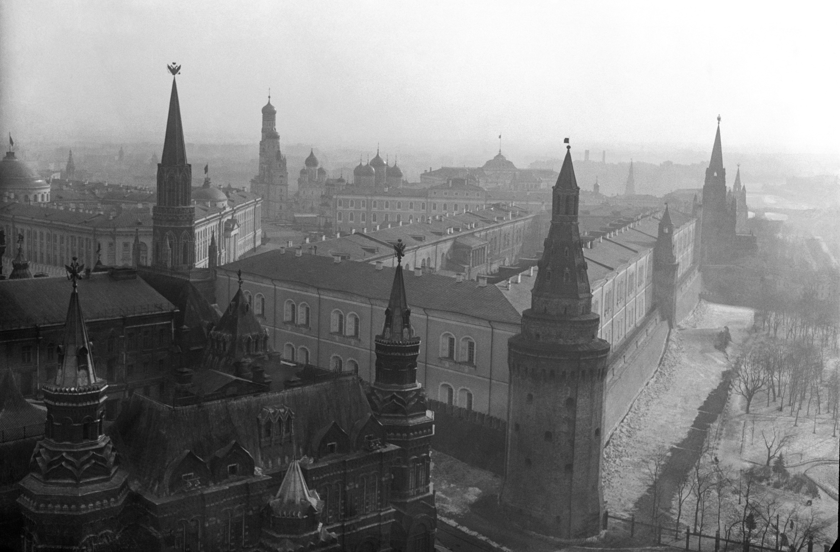 Moscow Kremlin.